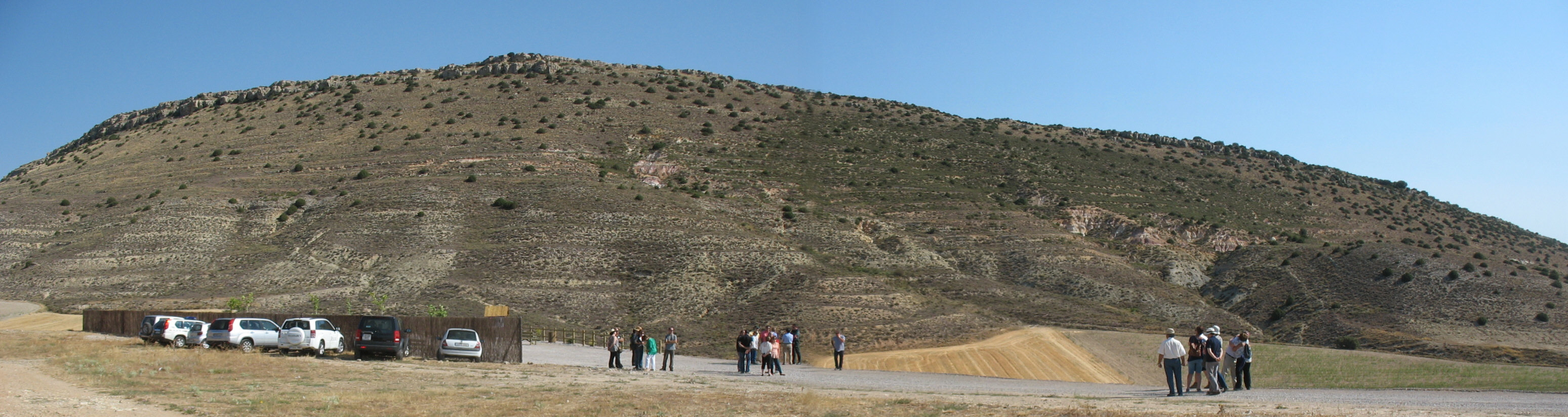 Aalenian GSSP (Lower-Middle Jurassic boundary). Golden spike ceremony: July, 28th 2016. Fuentelsaz, Guadalajara, Spain. Outcrop general view